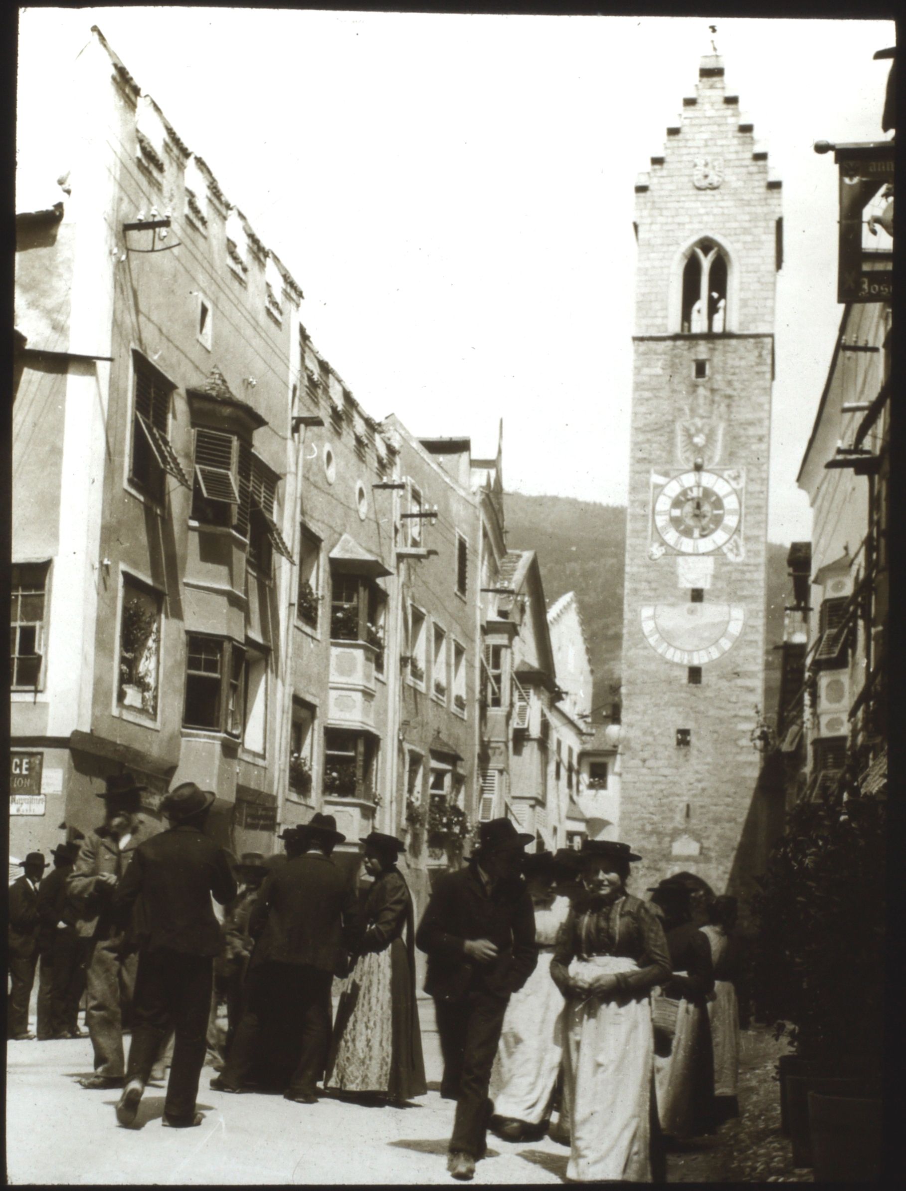 photo A.E.Hasse, Baoldon, Yorkshire. Orig. 6x6 glass platte diapositive